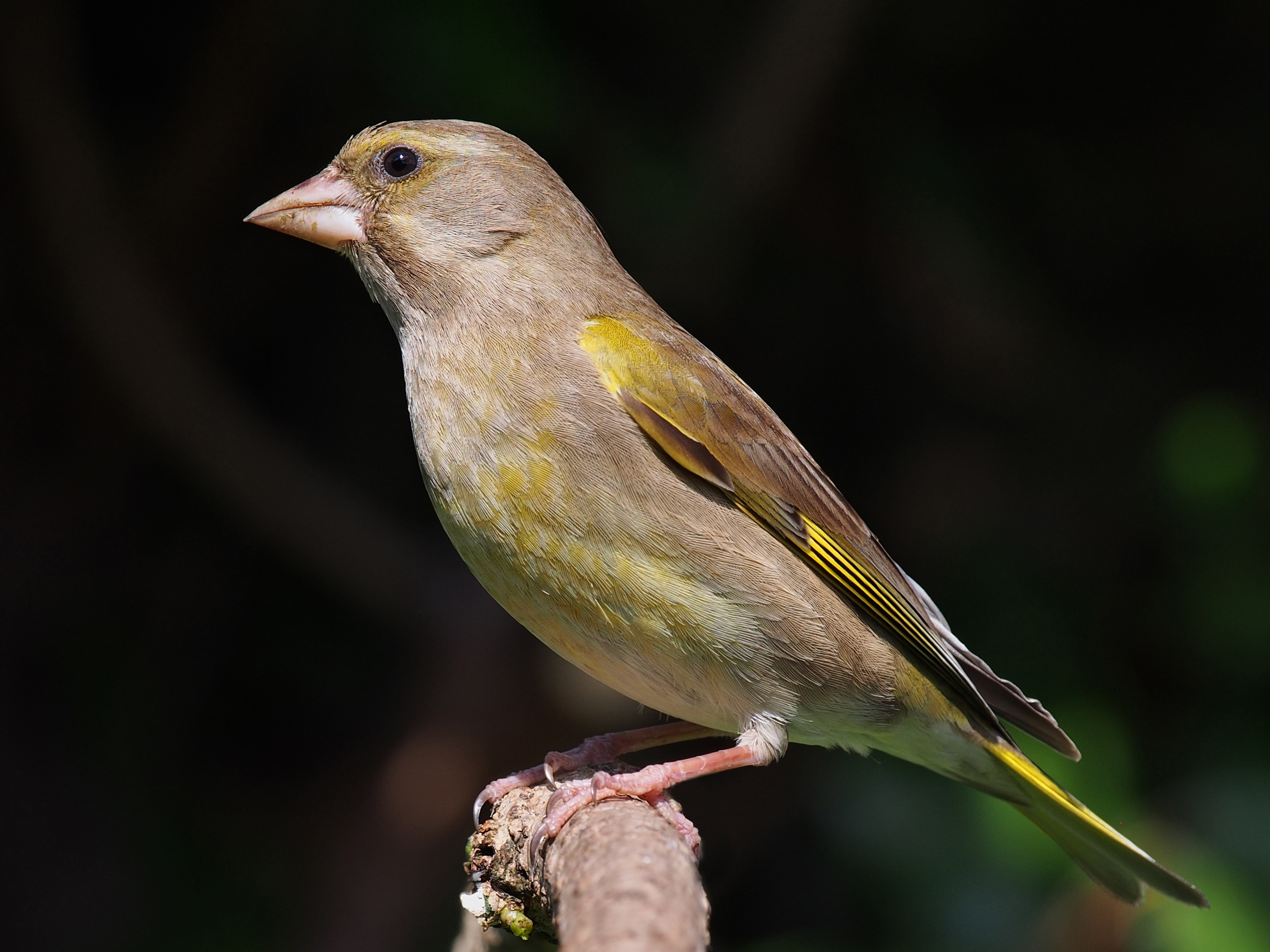 European Greenfinch, Chloris chloris, female